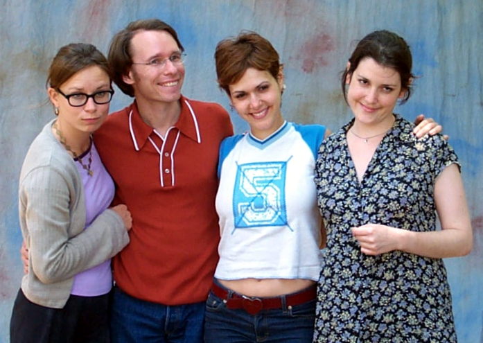 Mary-Lyn Rajskub, Mark Tapio Kines (Director), Sheeri Rappaport and Melanie Lynskey on the set of Claustrophobia (a.k.a. Serial Slayer).